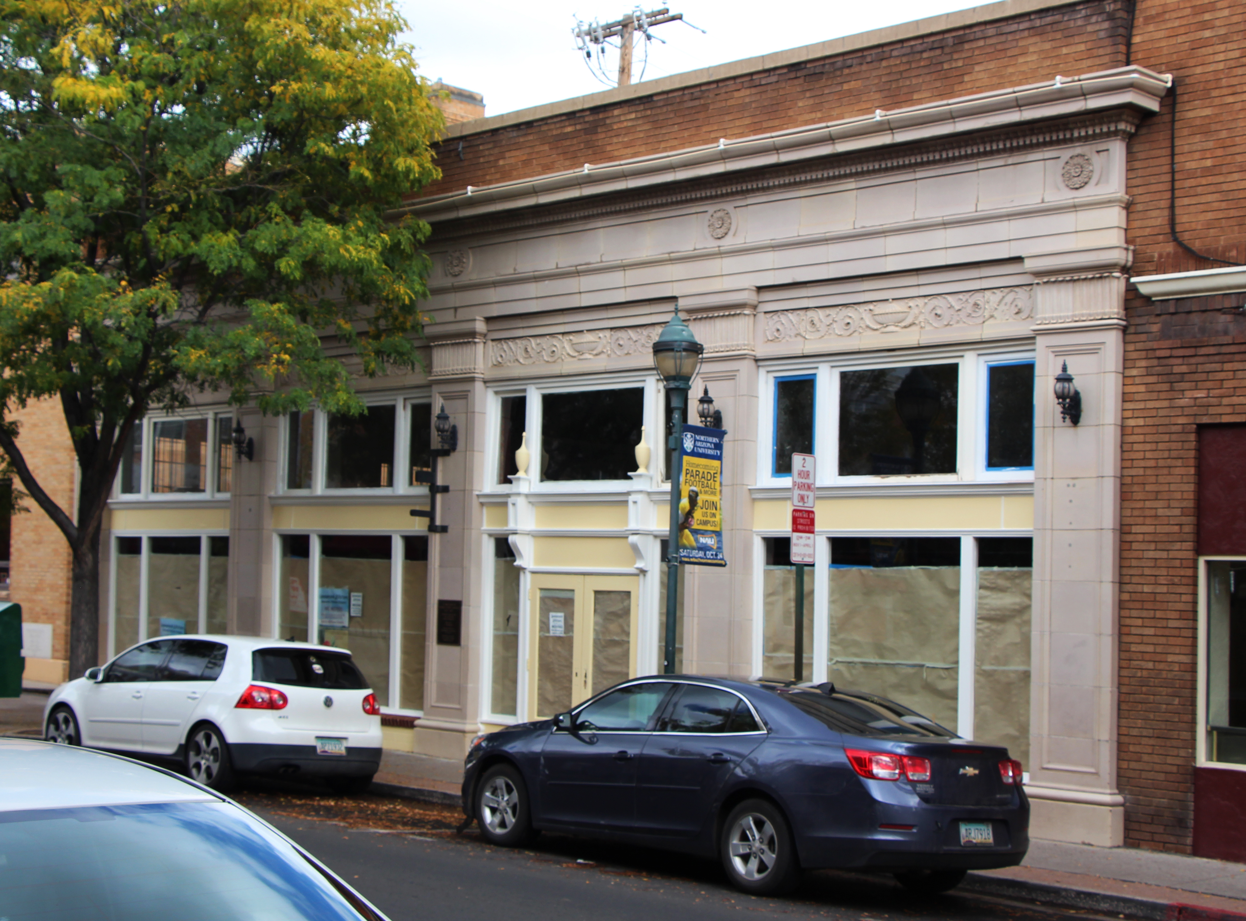 Riordan Building, 106 N. San Francisco St., Flagstaff, AZ